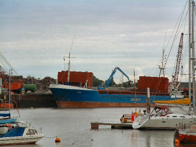 Oliver's Wharf, Brightlingsea. Commercial port operations are carried out at the privately owned Olivers Wharf, but most of the harbour is given over to leisure craft.